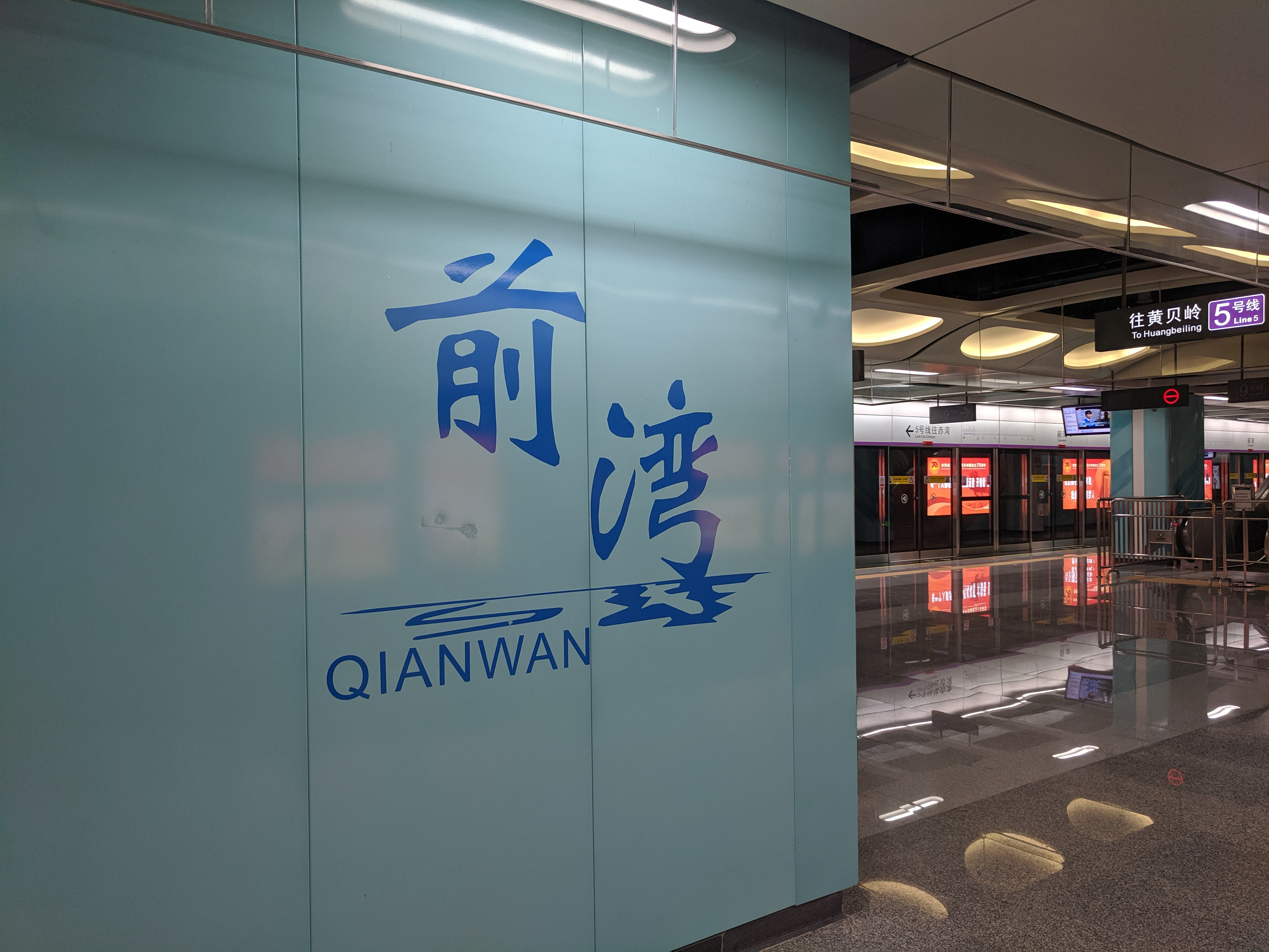 SZMC Line5 Qianwan Station Name on Wall